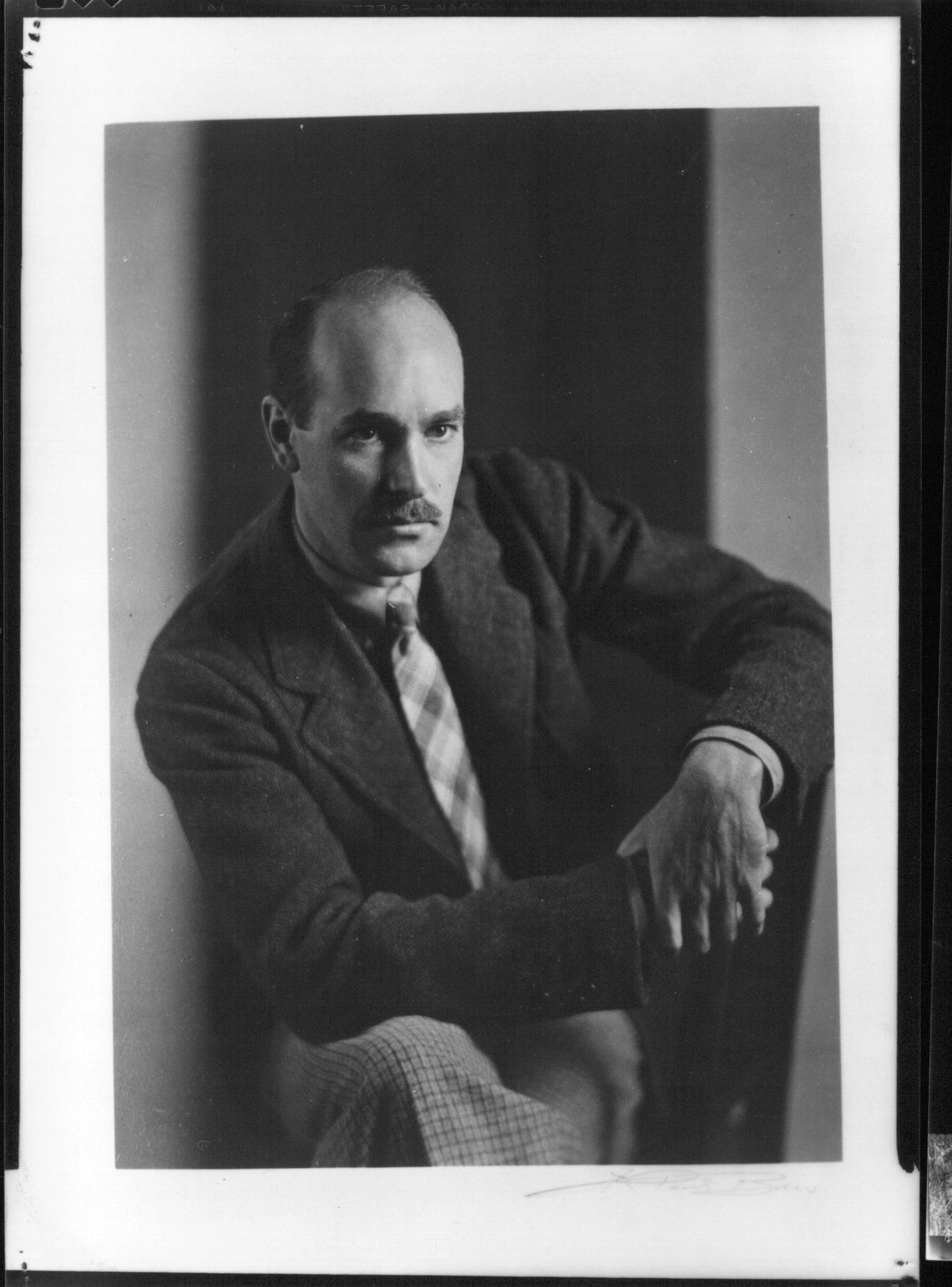 Persistent URL: Subject (TGM): Authors; Teachers; Portrait photographs; Reproductions Location: Oxford, Ohio Author and Miami University faculty member.